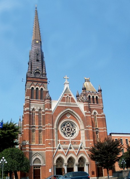 St Andrews Cathedral. Taken on 29JUL04 by Dr Haggis.